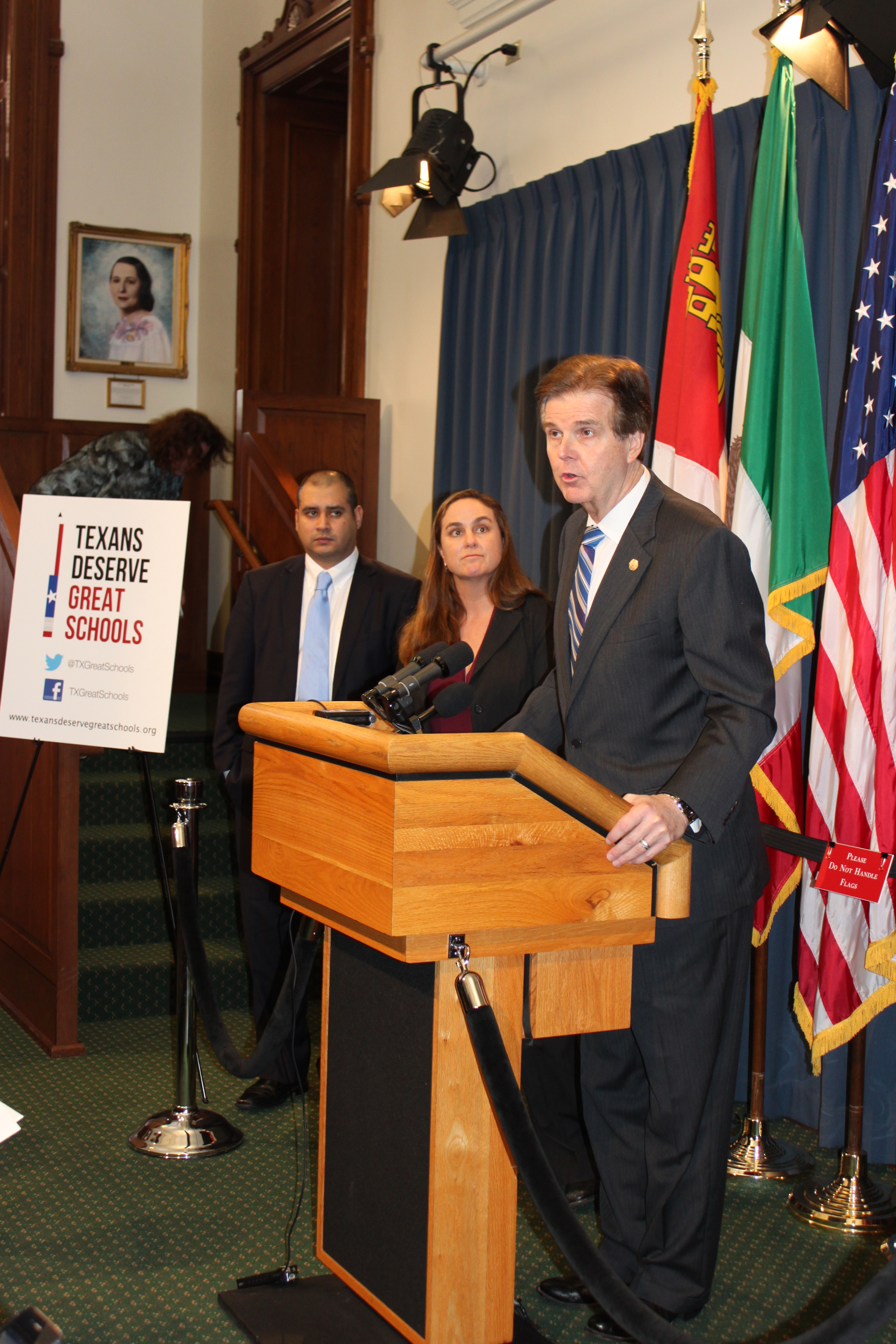 Texans Deserve Great Schools ( - Launch Event (Jan. 24, 2013)